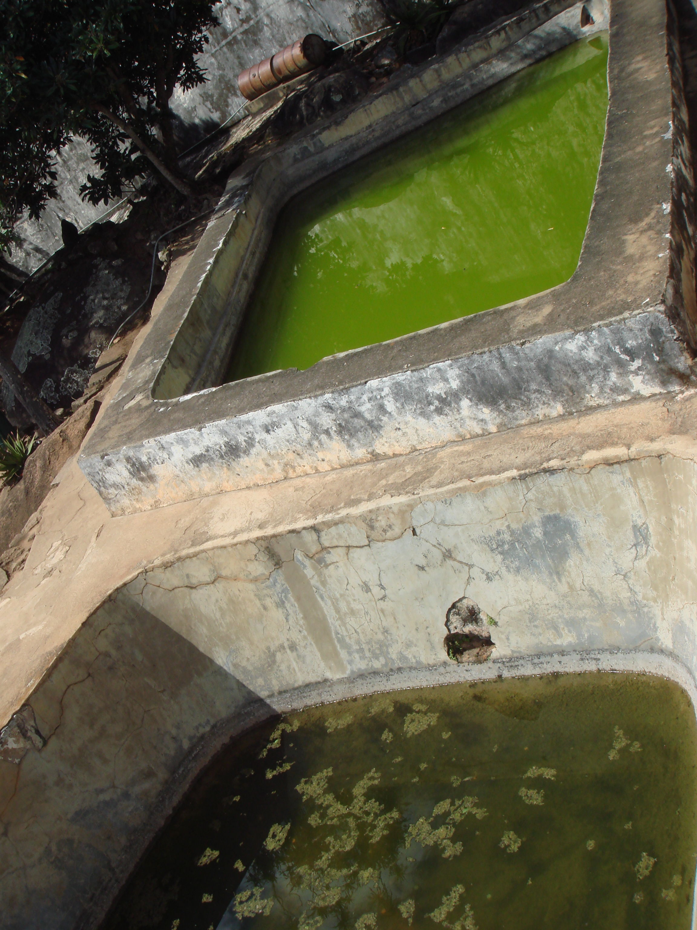 Ambohimanga, Madagascar